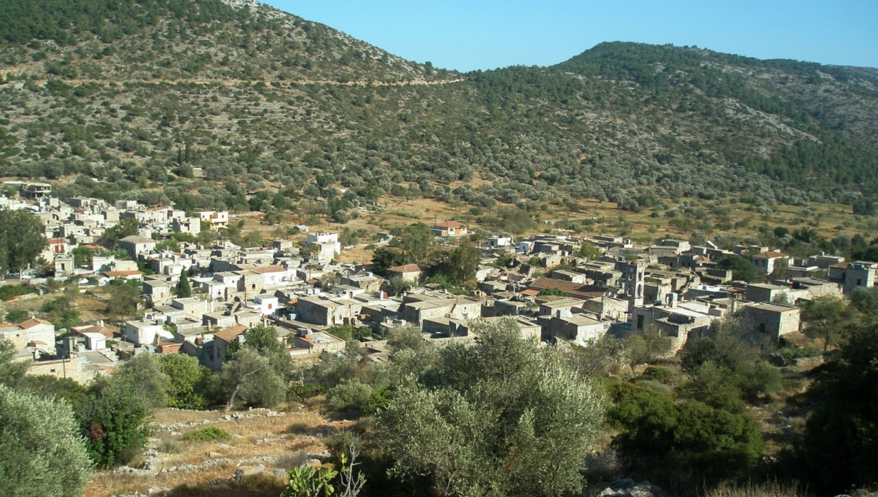 View of the village of Vessa at the island of Chios